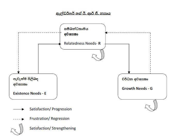 Alderfer's ERG Theory